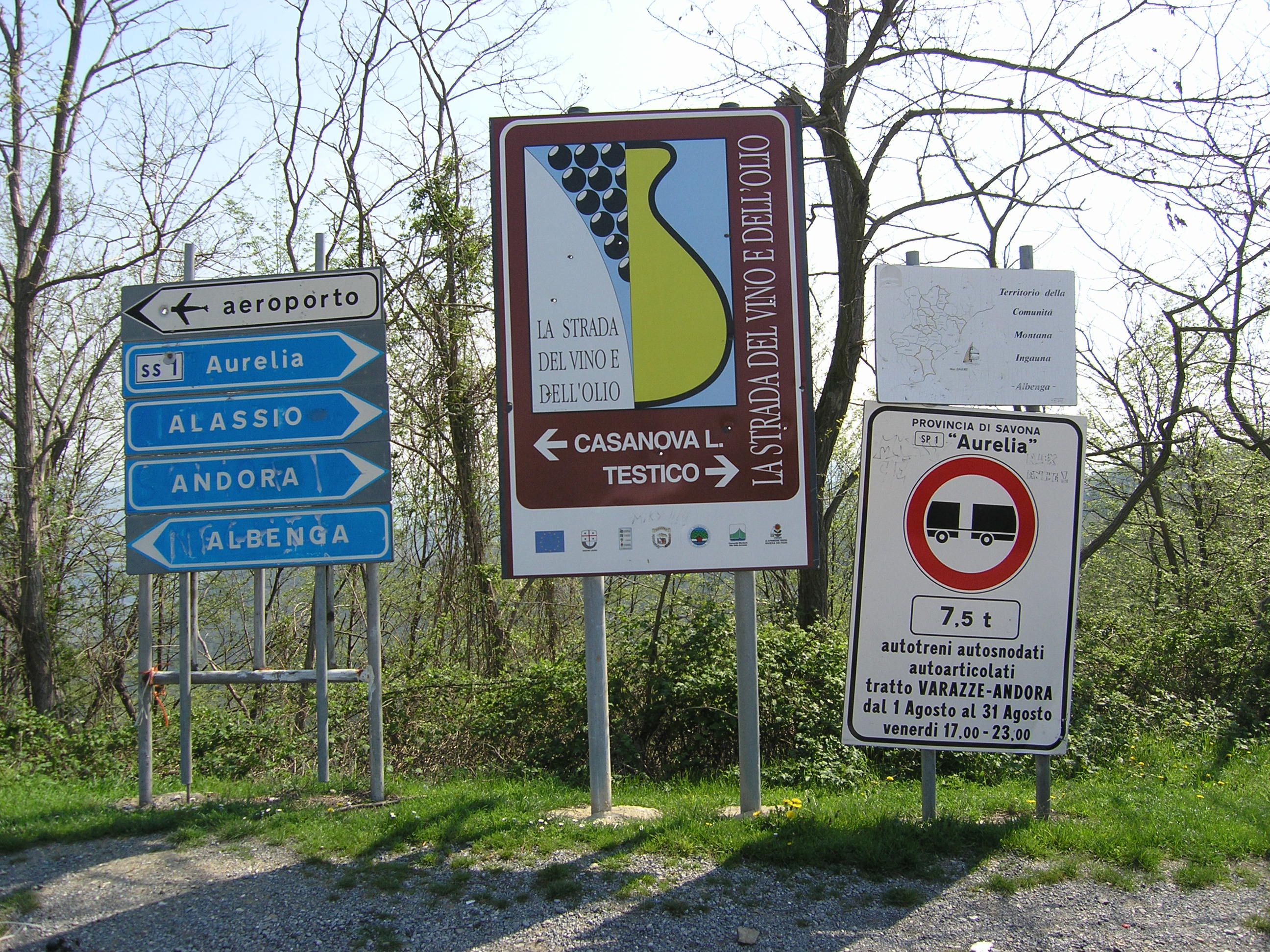 Signs at the Passo del Ginestro, Provinz Savona, Liguria, Italy